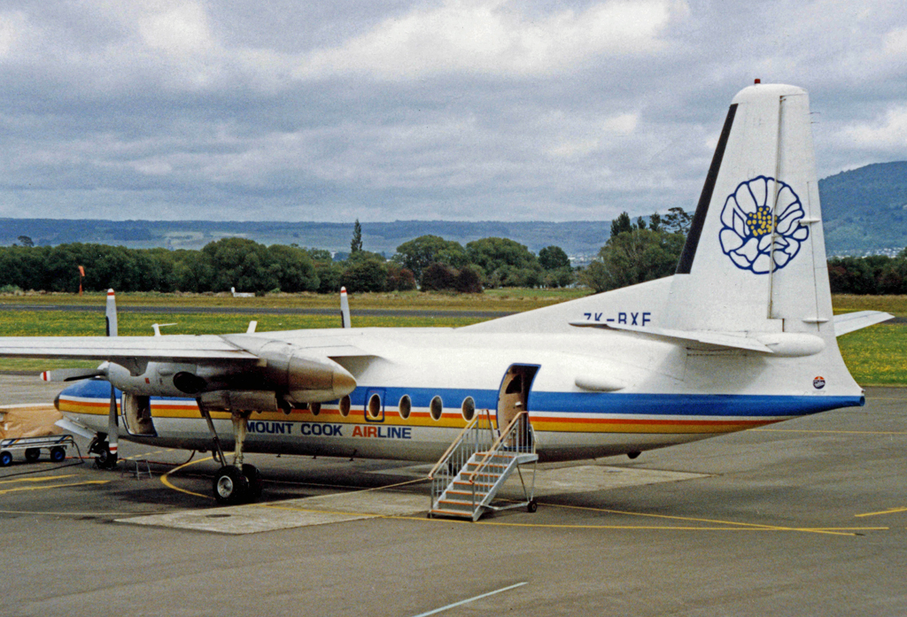 Fokker F.27 100 ZK-BXF of Mount Coook Airline at Rotorua Airport